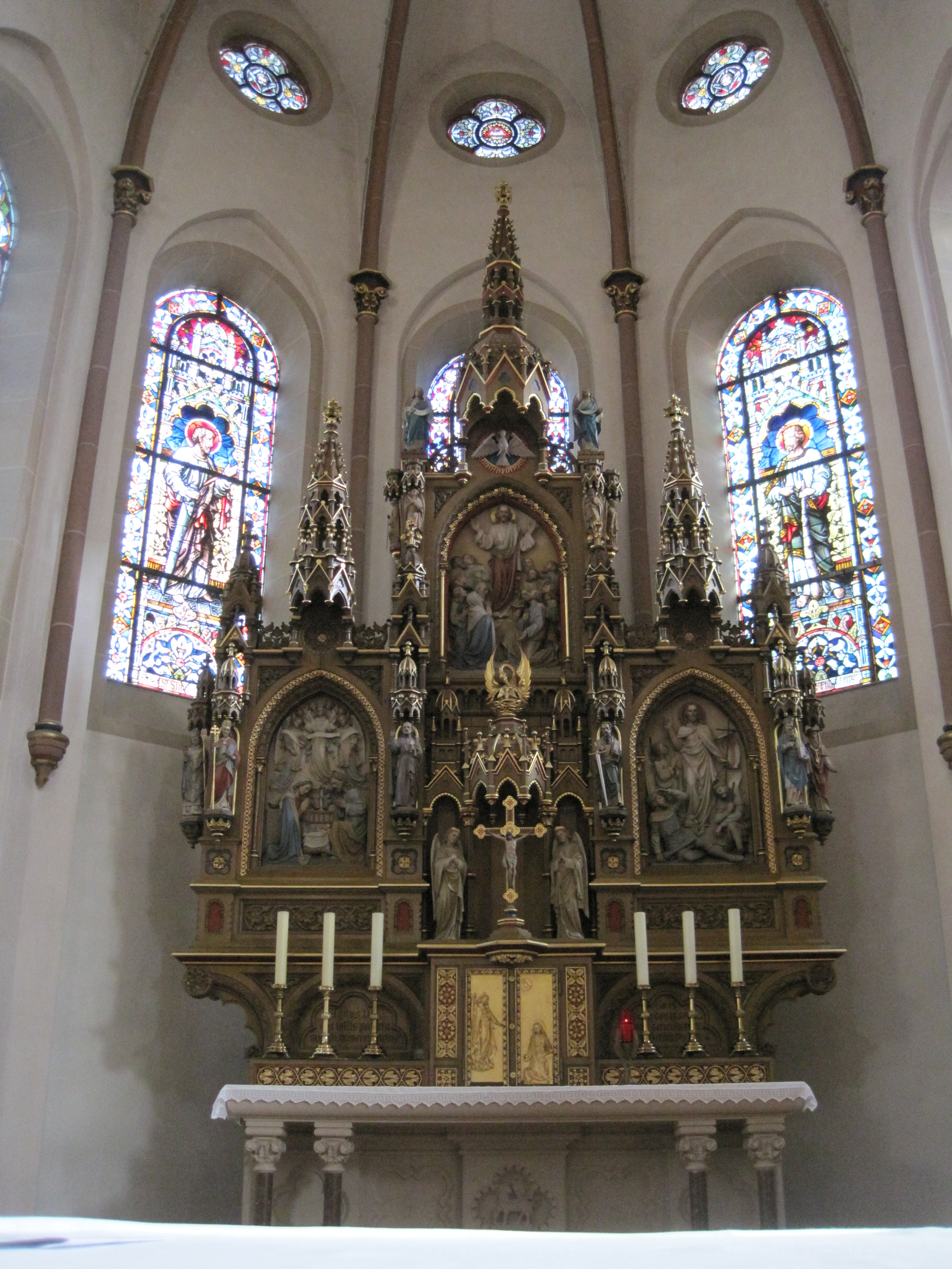 St Bartholomew Church Meggen, Lennestadt, Germany check usage